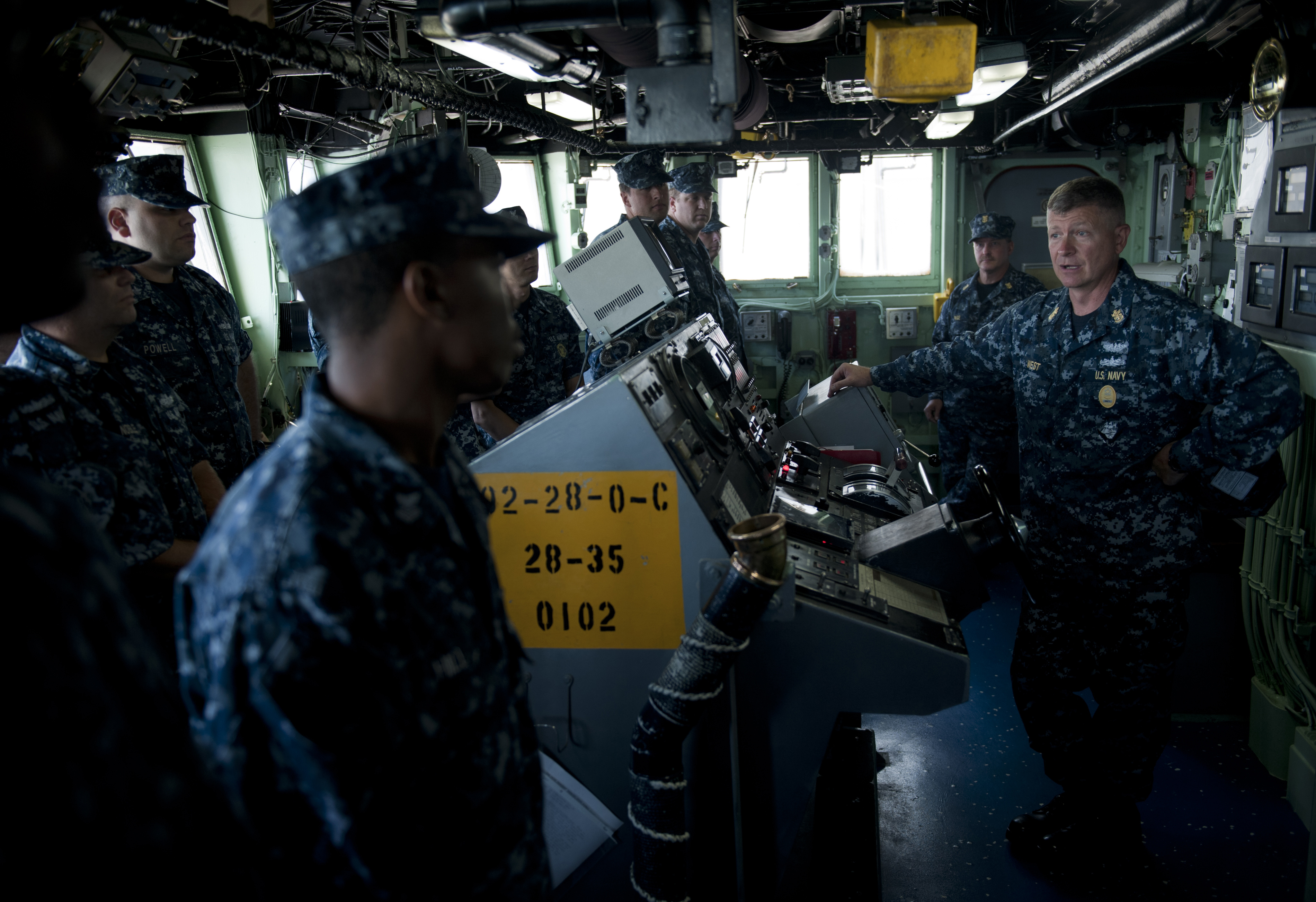 SAN DIEGO (Aug. 4, 2011) Master Chief Petty Officer of the Navy (MCPON) Rick D. West talks with Sailors aboard the mine countermeasures ship USS Chief (MCM 14) at Naval Base San Diego. West is on a nine-day visit to Navy Region Southwest. (U.S. Navy photo by Mass Communication Specialist 2nd Class James R. Evans/Released)